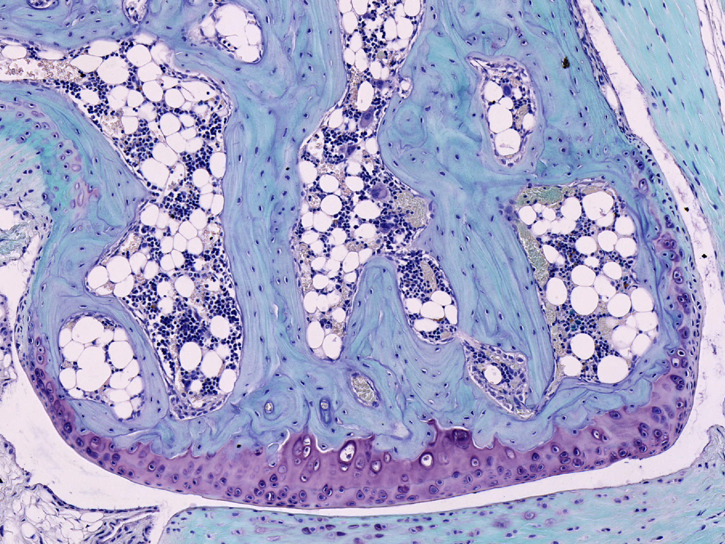 Section through the knee joint from a mouse stained with Safranin O and light green solution. The bone is stained pale blue and the cell nuclei of the bone and bone marrow are visible as small dark blue spots. The cartilage on the edge of the joint (purple) and fat cells (large white spaces) are also visible here. Width of image is 1 mm.